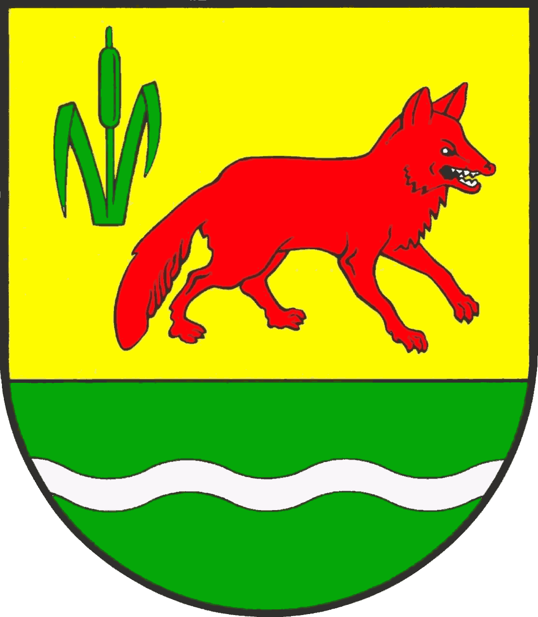 Coat of arms of the municipality Tetenhusen in Schleswig-Holstein, Germany.